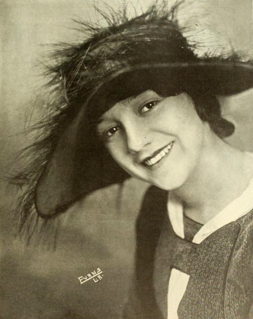 Advertisement in Moving Picture World, May 1919